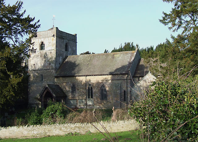 The Church of St Michael at Munslow, Shropshire Built of local Aymestry limestone. The nave is 12th-century. The tower, entered by a broad arch, was added late in the same century. The chancel may be 13th-century. In the 14th century a north aisle was built, the arcade of three arches being built within the existing nave whose north wall was then removed. Also 14th century are three windows in the south nave wall, the east window and south door in the chancel, perhaps the south chapel, the top storey of the tower, and the cruck framed south porch with its elaborate wooden tracery. These details, and a lot more developments in later centuries can be seen at this .